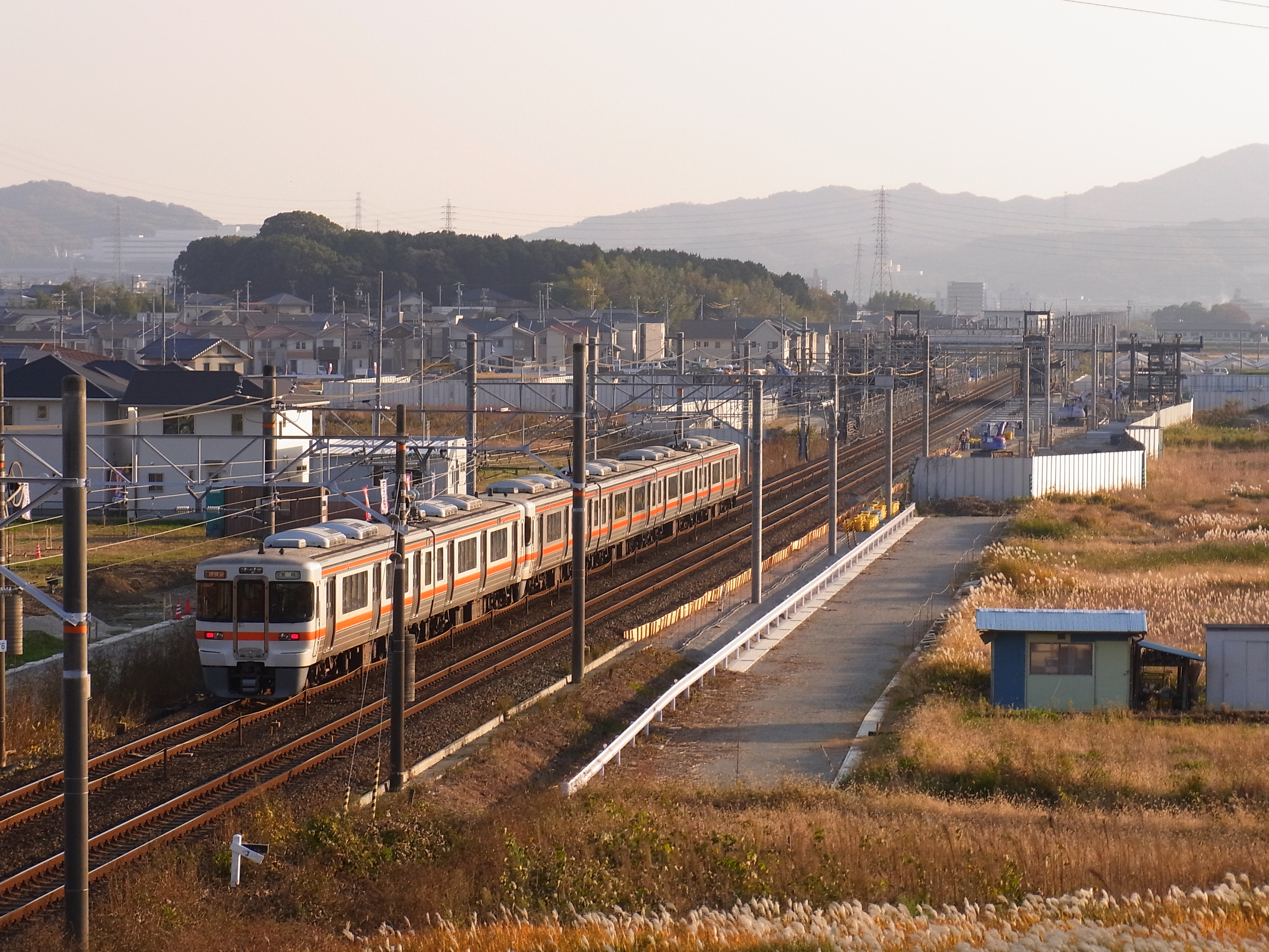 Aimi Station under construction on the Tokaido Main Line in Kota, Aichi prefecture